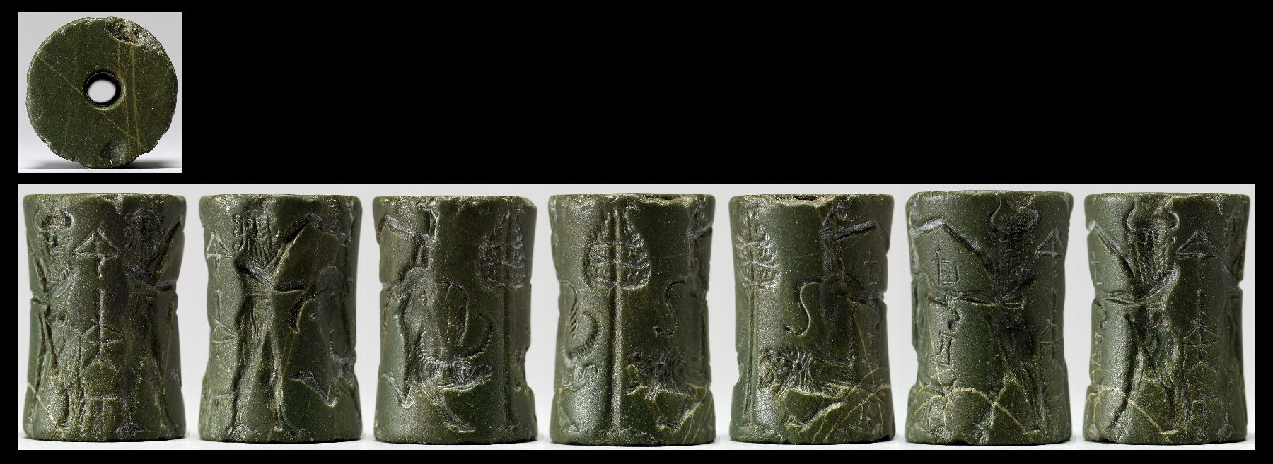 The scene on this seal features a central motif of a tree. On one side, a bearded hero is holding an inverted bovid; on the other, a bull man is holding an inverted lion. There are cuneiform inscriptions running through the scene in two places.